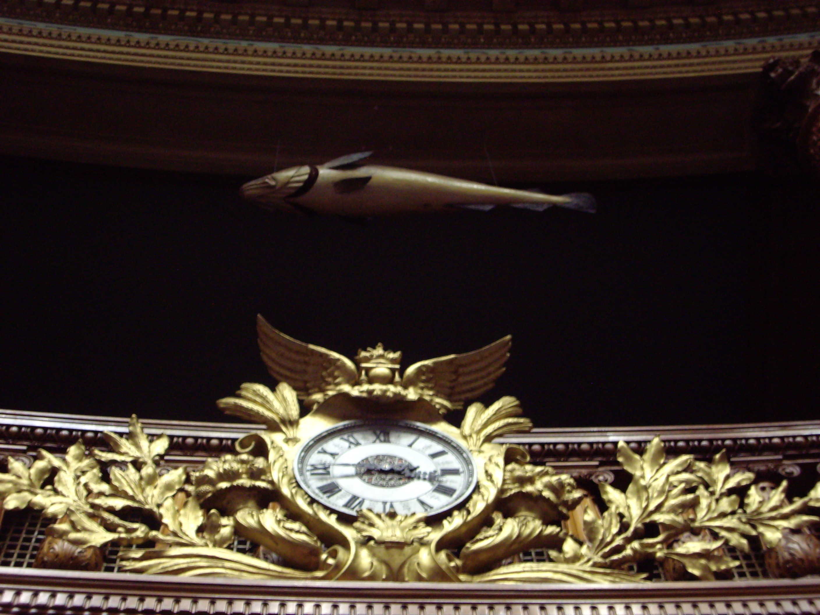 The Sacred Cod of Massachusetts in the Representatives chamber o f the Massachusetts State House